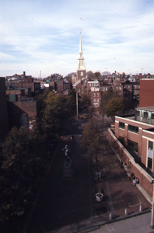 Title: Paul Revere Mall Creator: Peter H. Dreyer Date: 1975 November Source: Collection 9800.007, Peter H. Dreyer slide collection File name: 9800007_195 Photographer: Peter H. Dreyer Rights: Public Domain, Please credit Peter H. Dreyer Citation: Peter H. Dreyer slide collection, Collection #9800.007, City of Boston Archives, Boston